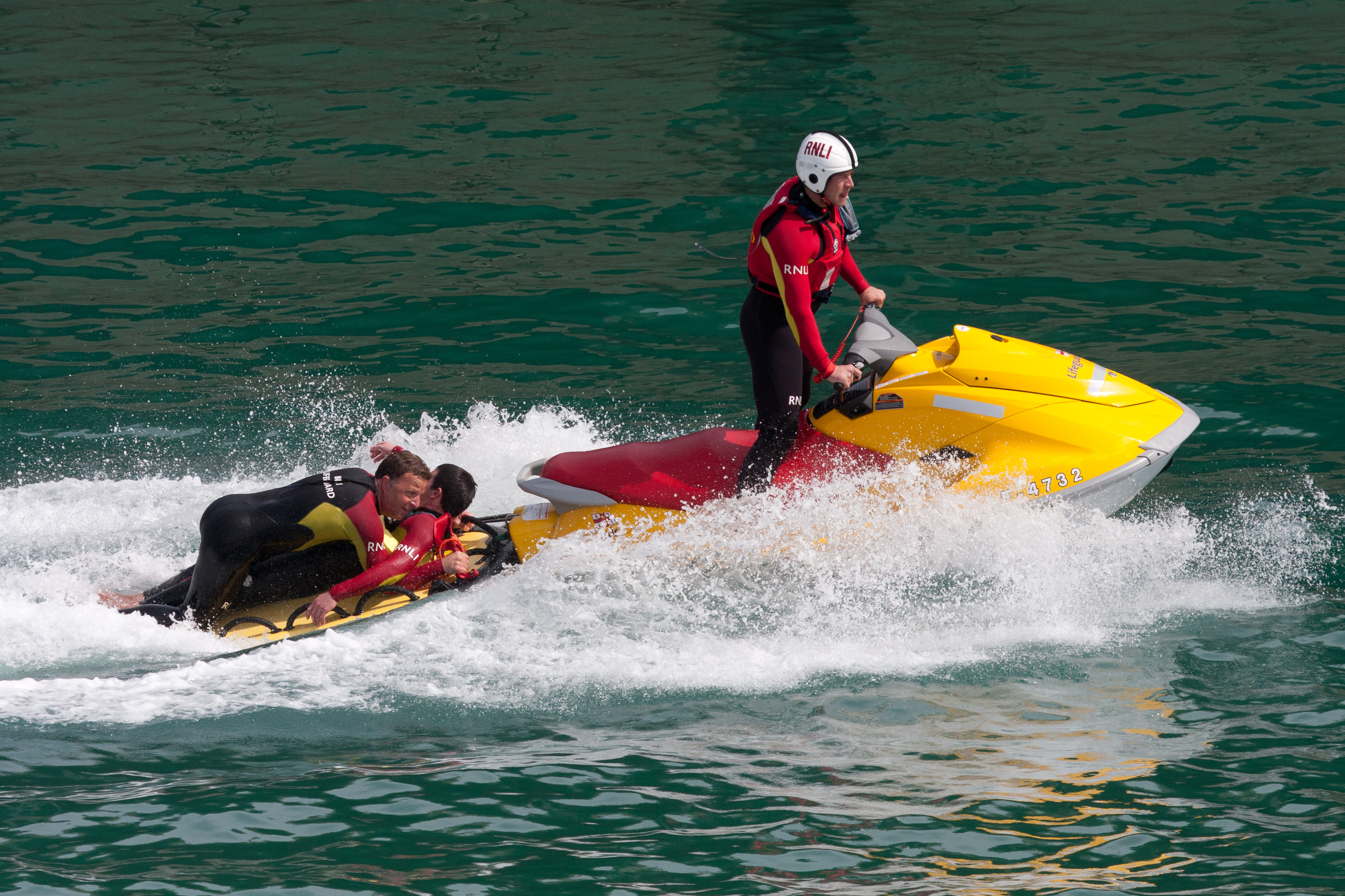 RNLI Lifeguards demonstrate recovery of an unconscious person from the water using a PWC. Location: St. Helier harbour, Jersey, Channel Islands.